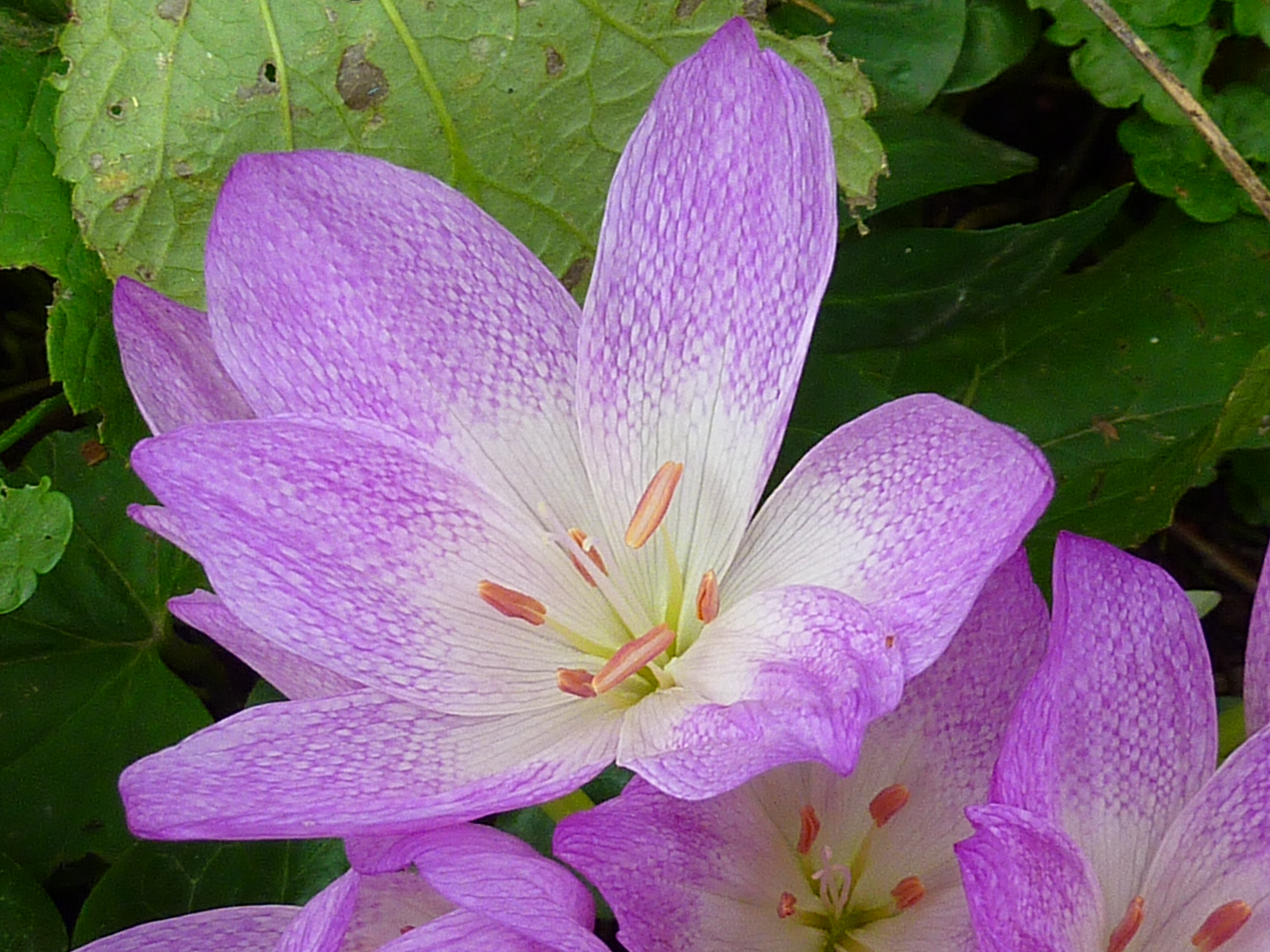 A colchicum flowering in Madison, Wisconsin.